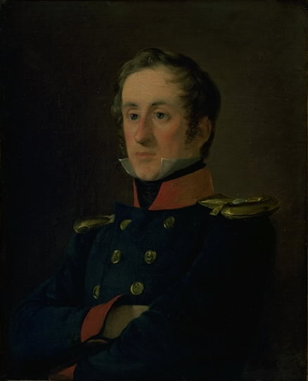 Portrait of the Danish painter and navel officer Marinemaleren Emil Wilhelm Normann by Jørgen RoedDansk: Marinemaleren Emil Wilhelm Normann i søofficersuniform